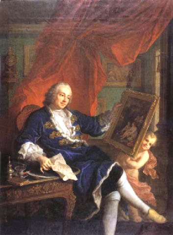 Portrait of Léonard Bathéon de Vertrieu